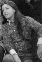 Inés Miguens- cantante